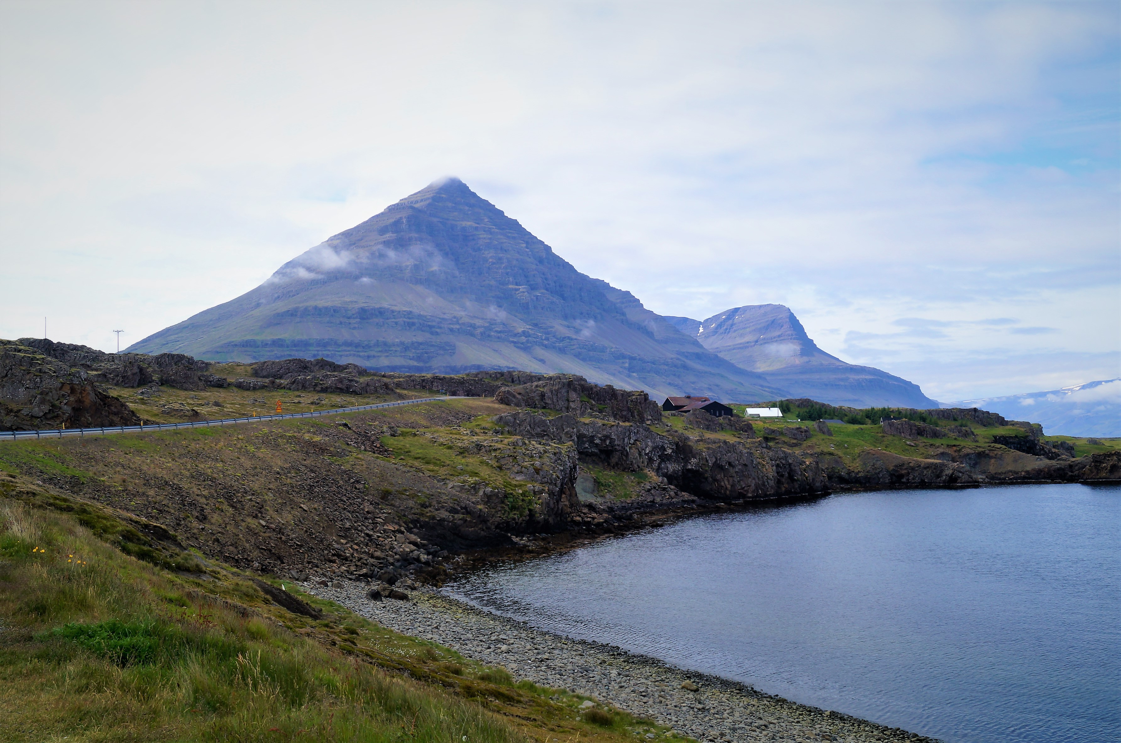 View of Teigarhorn and Búlandstindur